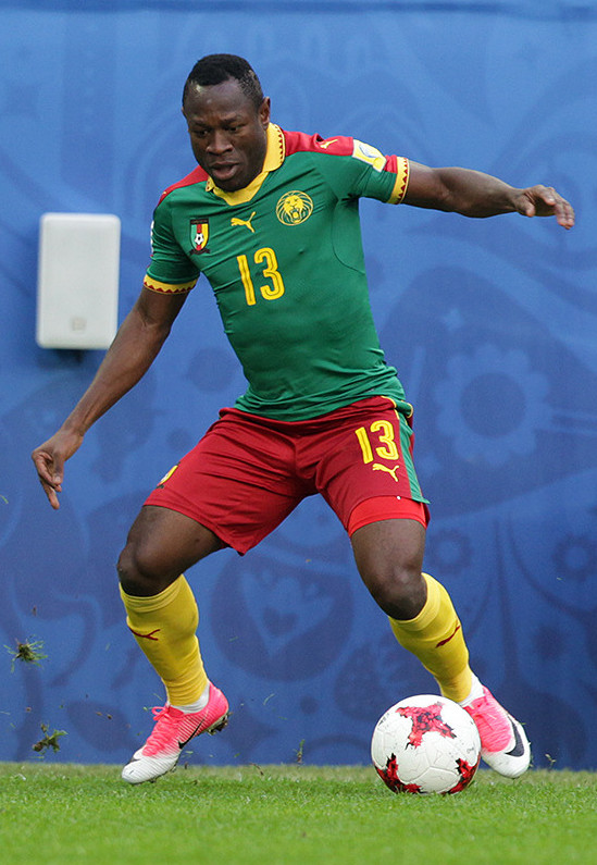 Cameroon vs Australia (1-1). FIFA Confederations Cup 2017